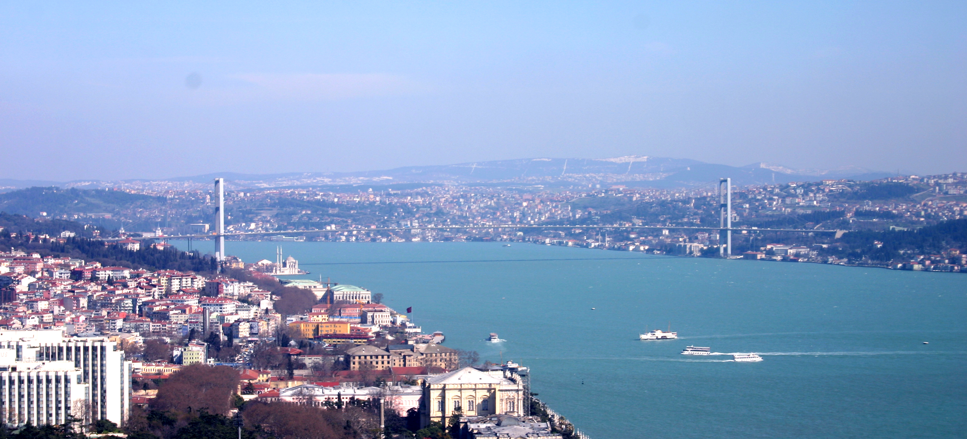 View of the Boshporus from the Marmara Hotel, Taksim Square.